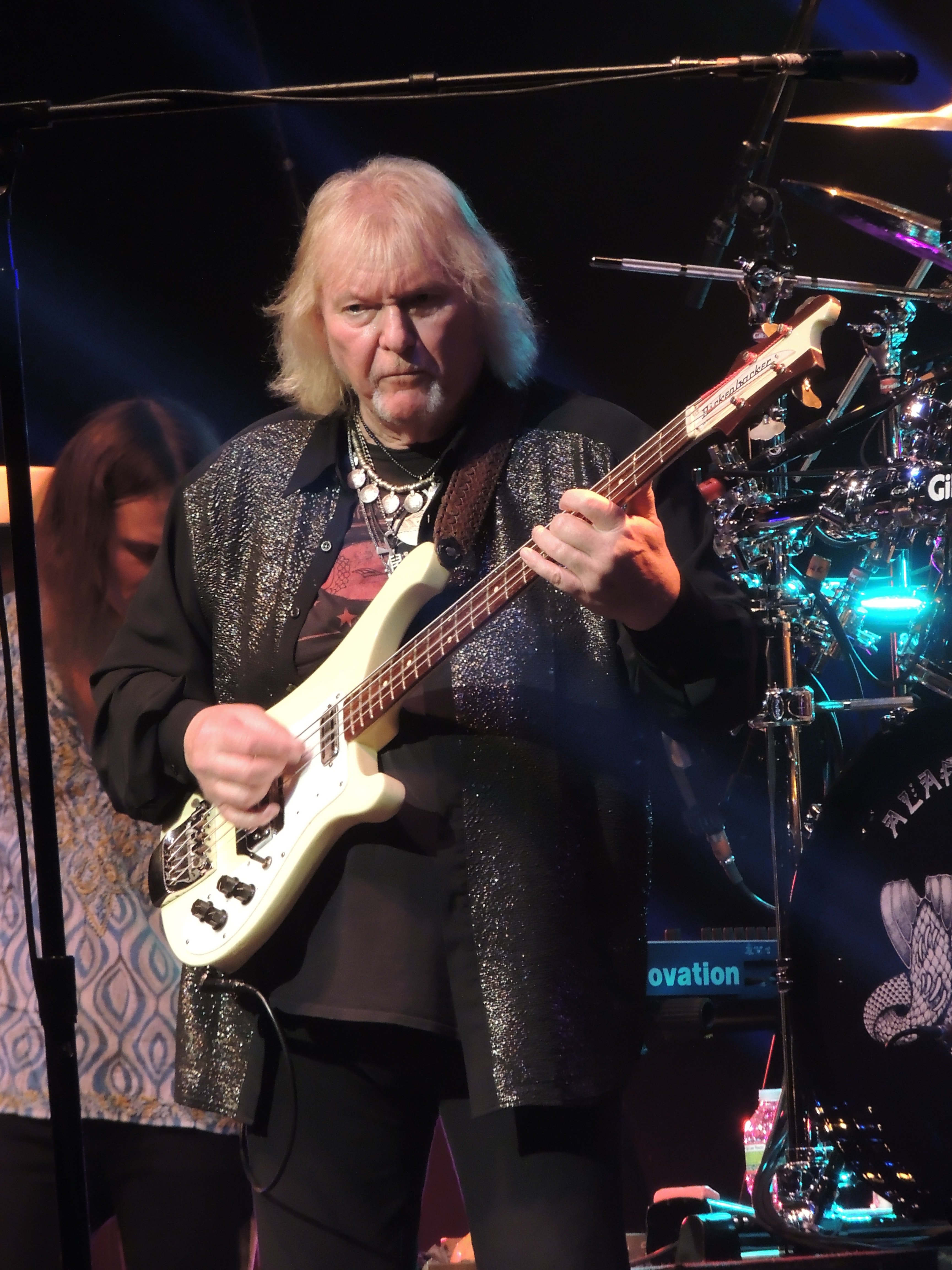 Chris Squire at the Beacon Theatre in April 2013.